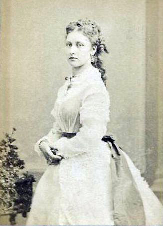 Princess Louise, later Marchioness of Lorne then Duchess of Argyll (touched up in photoshop)